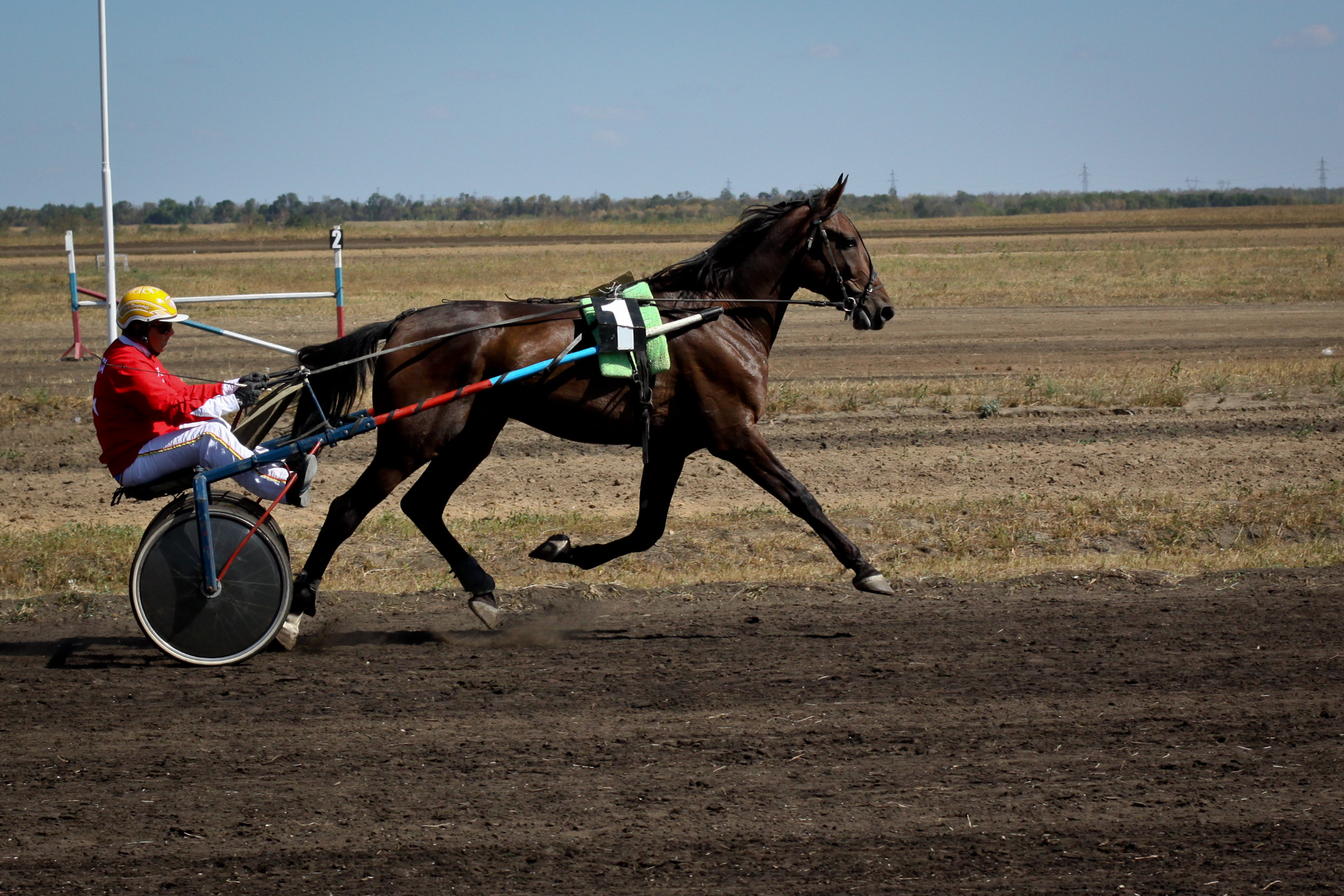 The Orlov Trotter (also known as Orlov